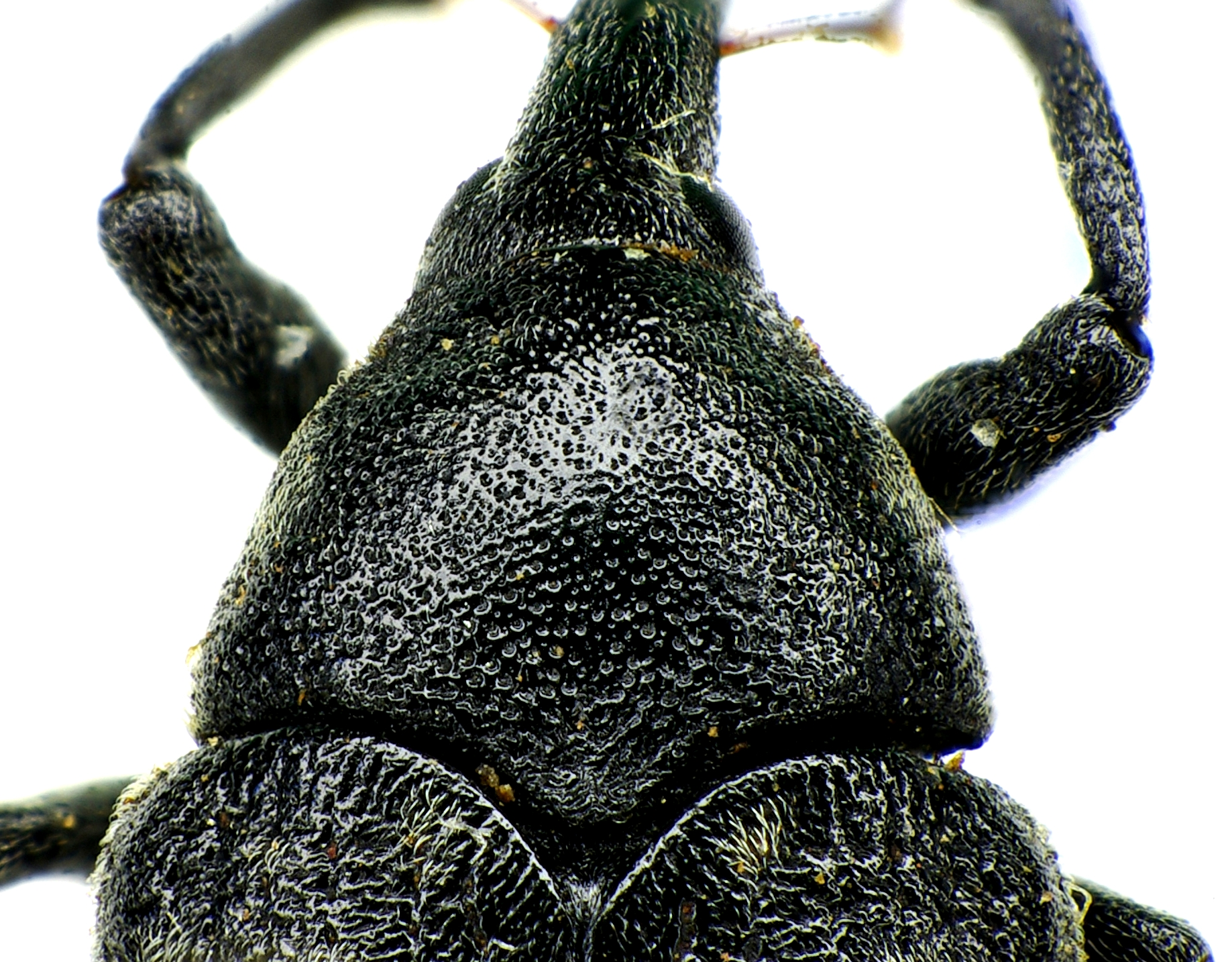 Pronotum of Larinus turbinatus